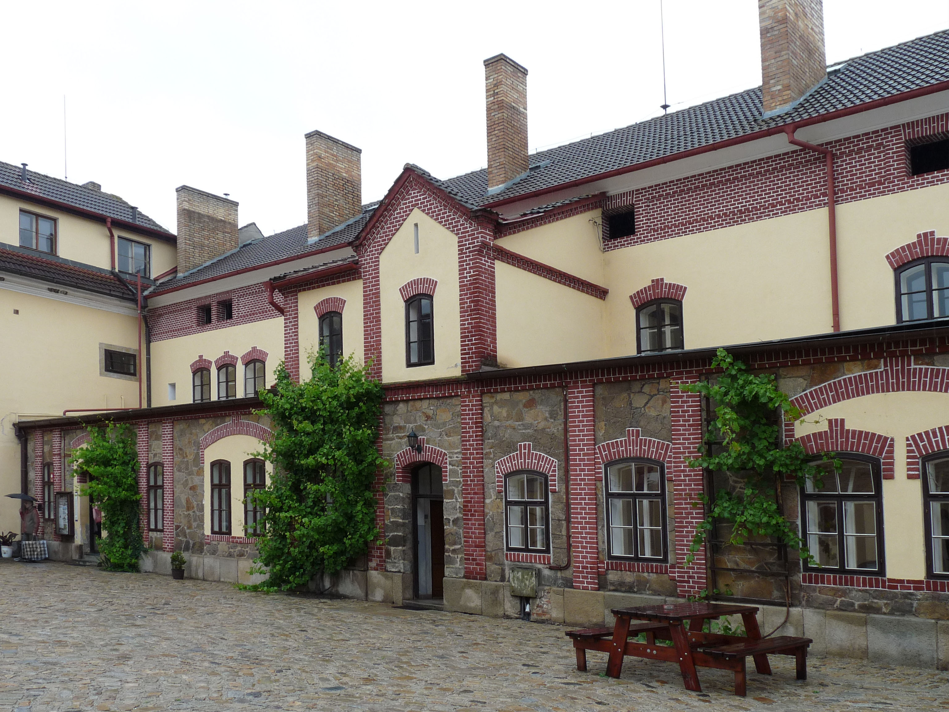 Třeboň brewery building